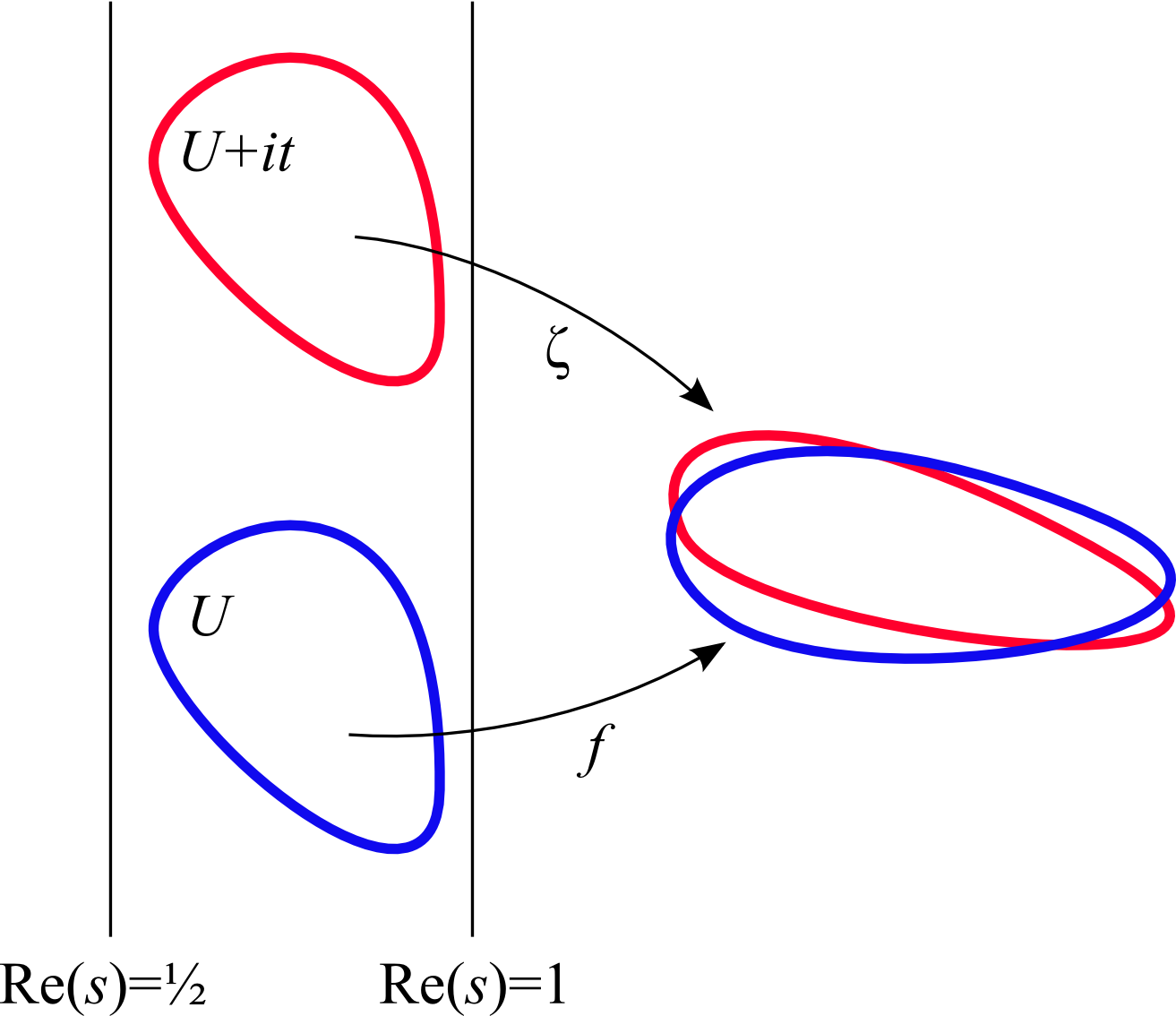 Illustration of Voronin's universality theorem about the zeta-function in complex analysis